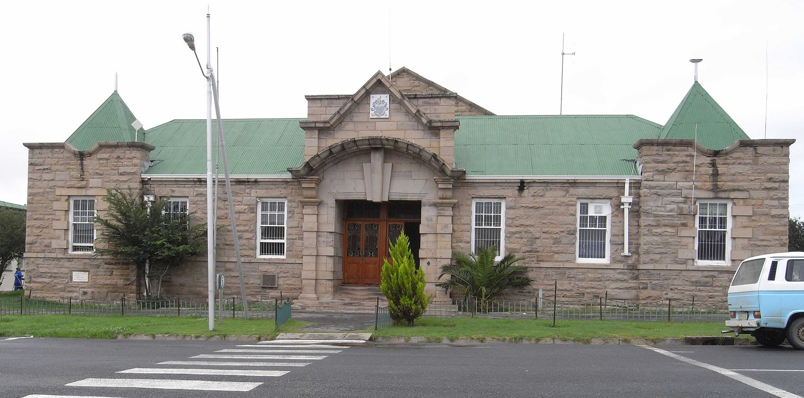 Cathcart, city administration (Eastern Cape, South Africa)